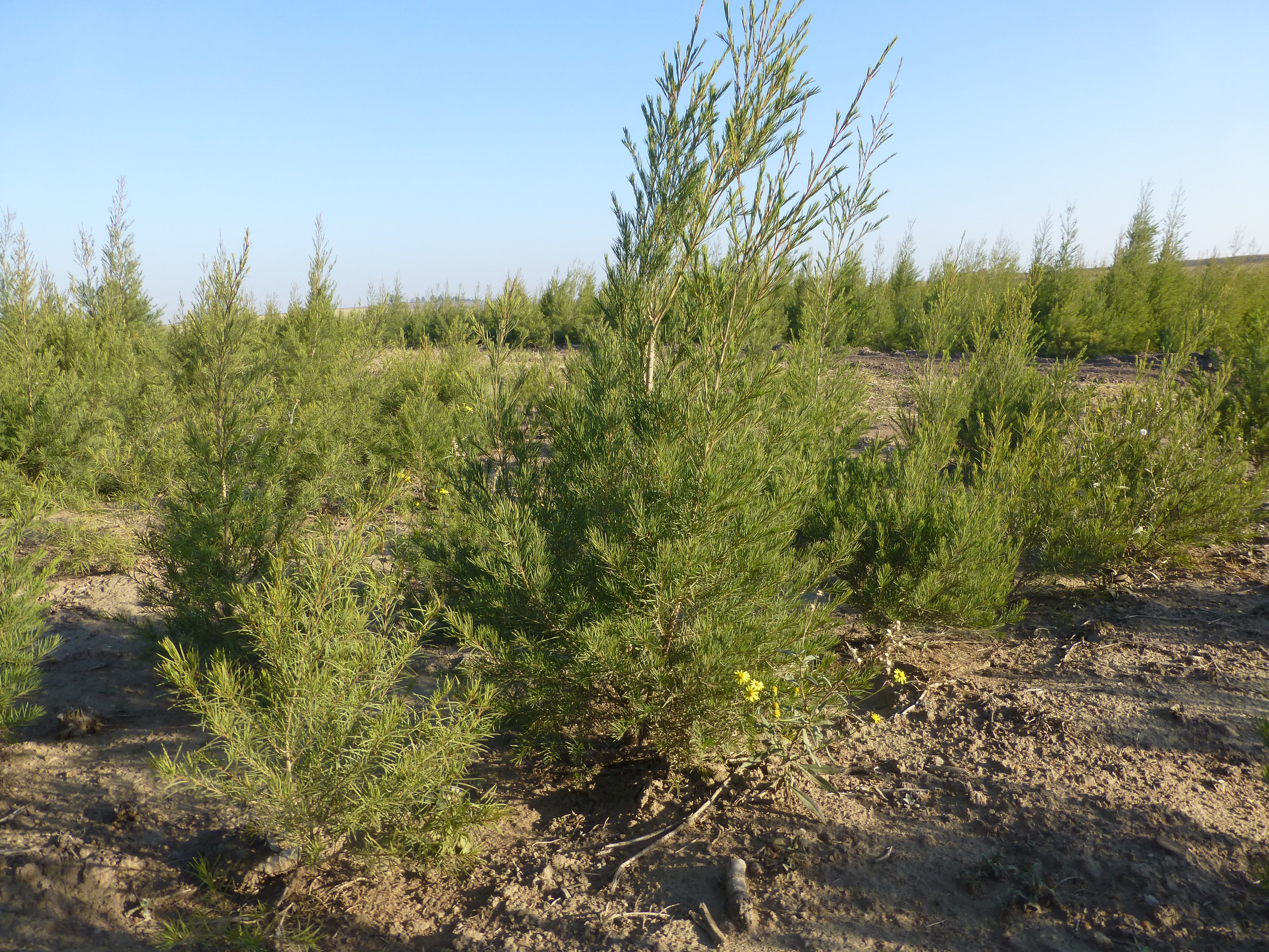 Rooibos field - Aspalathus linearis